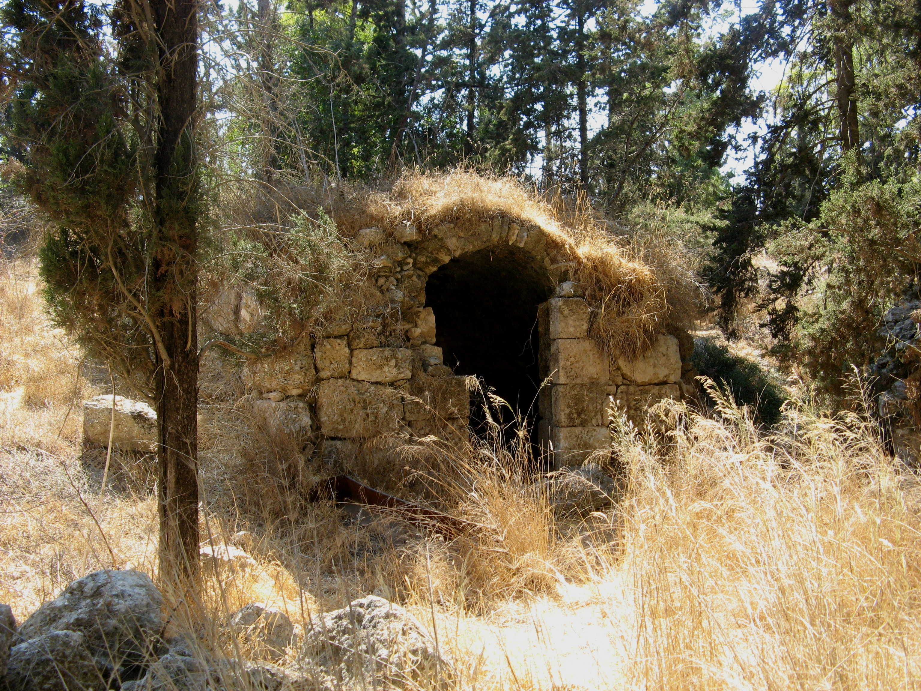 ruin in Bayt Susin, formerly Palestinian village depopulated during 1948 Arab-Israeli War